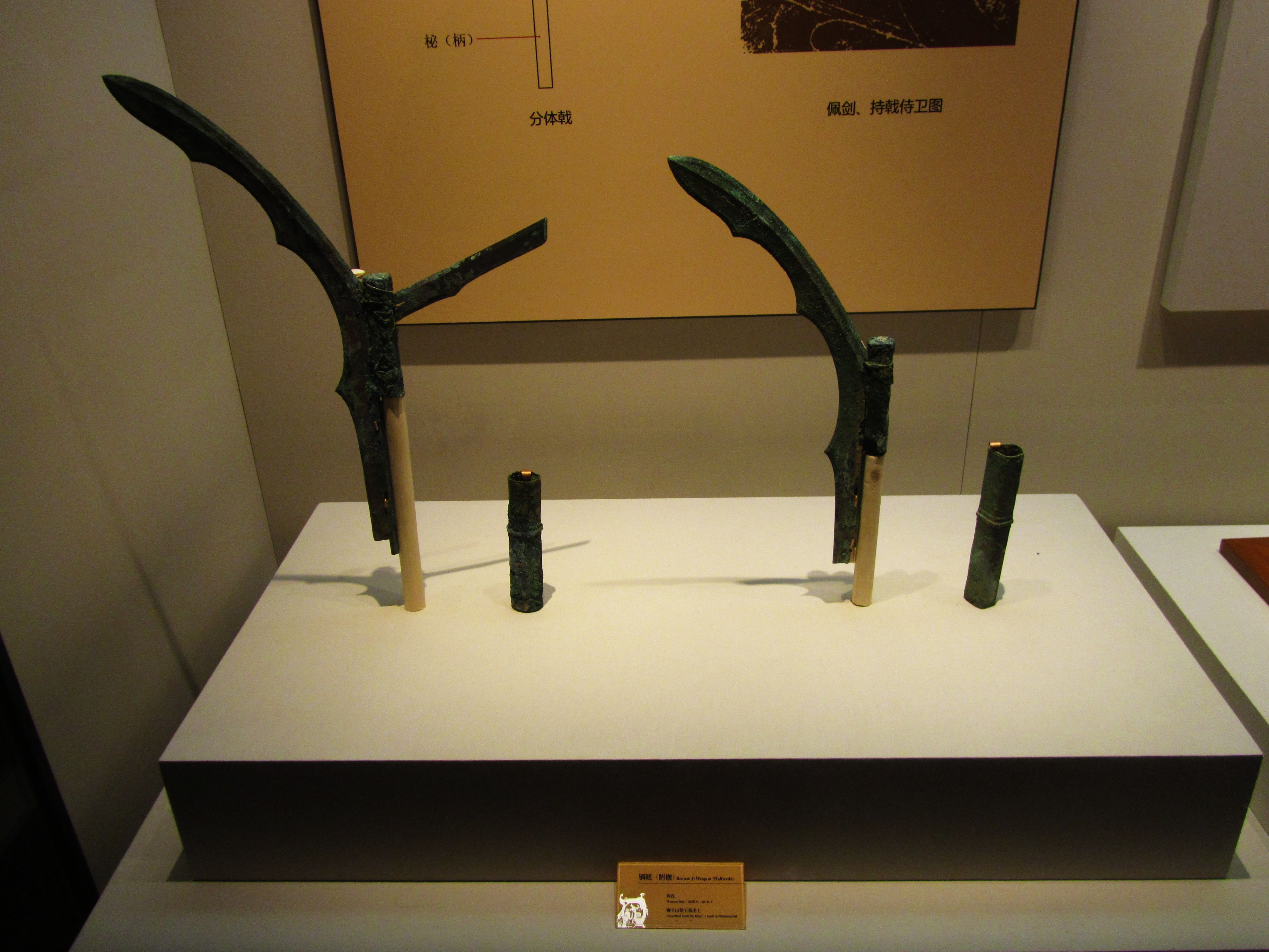 Bronze Halberds (or Ji Weapon) in Xuzhou Museum.